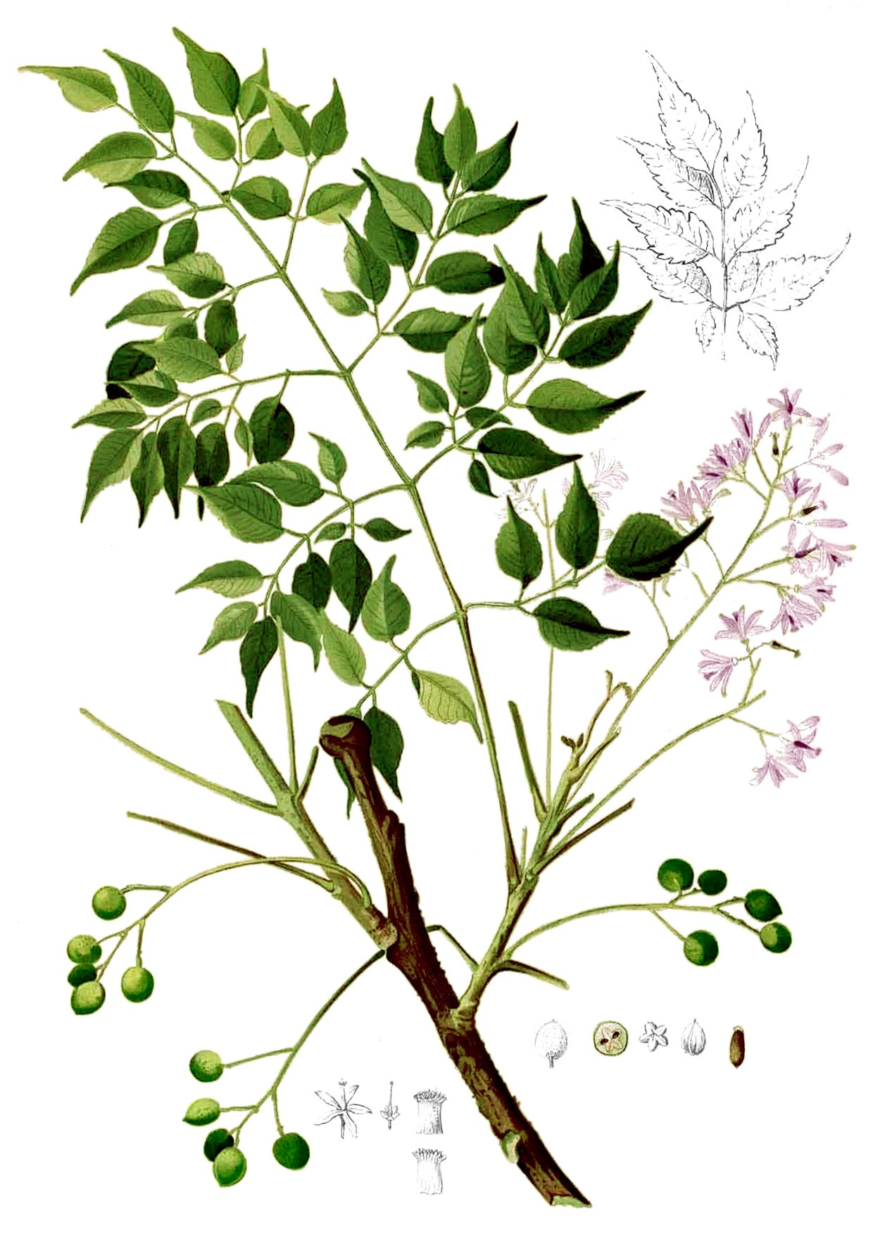 Plate from book